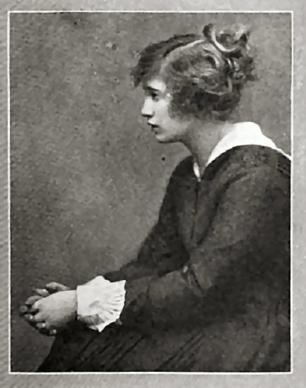 Actress Francine Larrimore ca. 1918